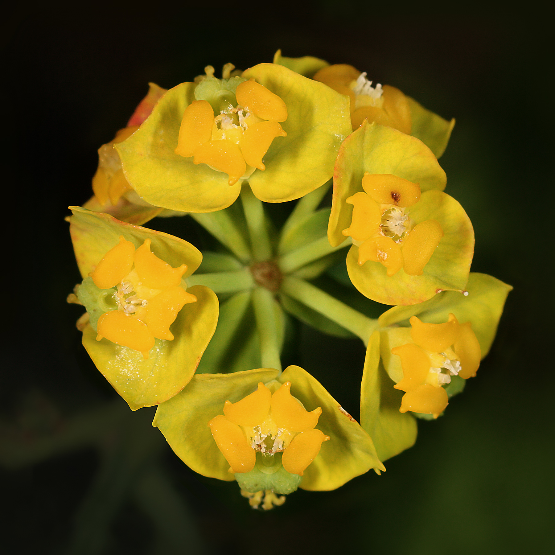 Description: Cypress Spurge (Euphorbia cyparissias) is a plant in the genus Euphorbia, which is native to Europe.